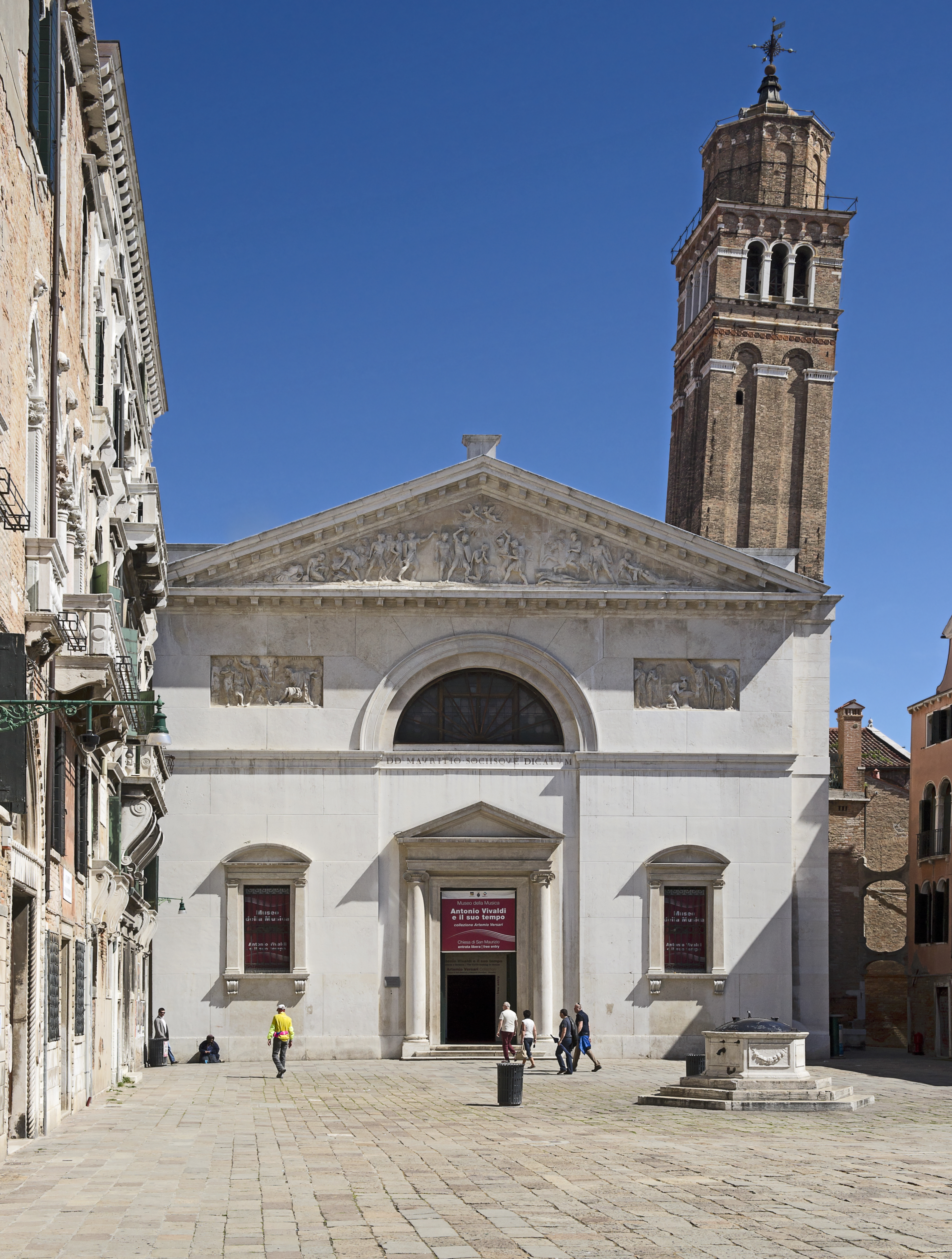 Church San Maurizio in Venice facade.